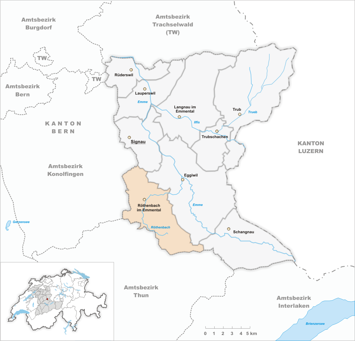 Municipality Röthenbach im Emmental